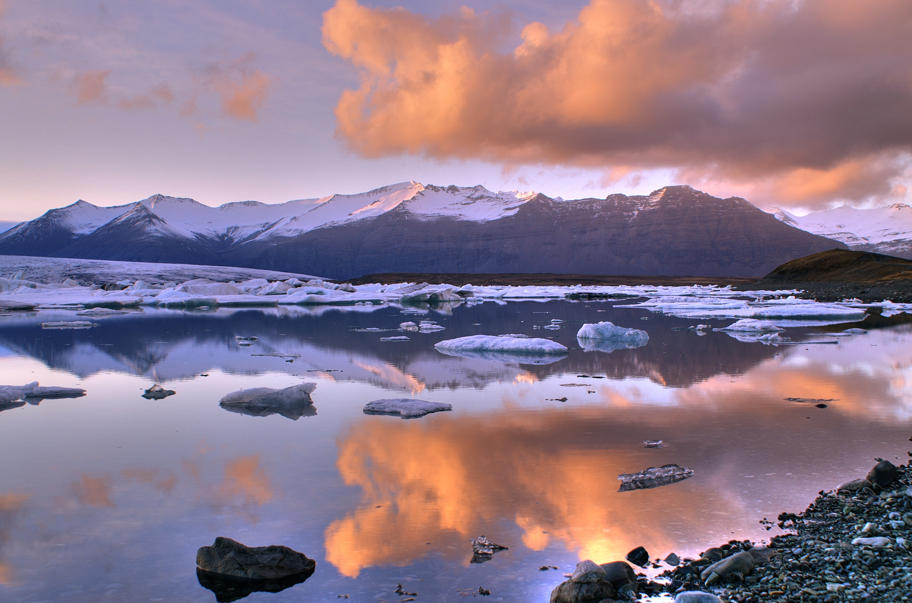 Jökulsárlón, a glacial lake in Iceland. To the right, the mouth of the glacier Vatnajökull.